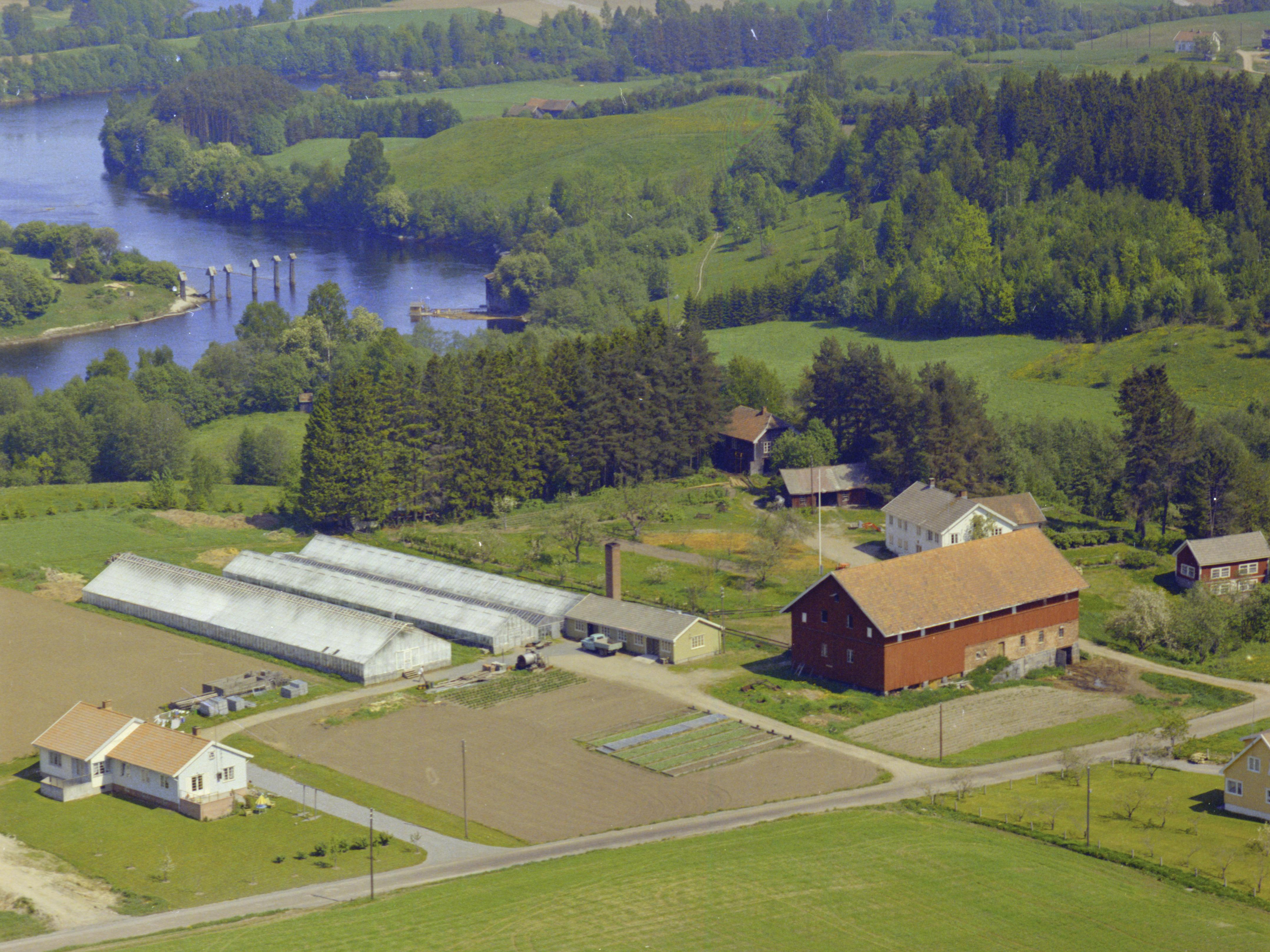 WF.HL.191784